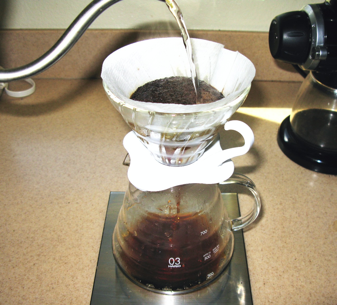 Needed a second round of Joe this Monday morning. 32 grams java + 520 grams Agua.